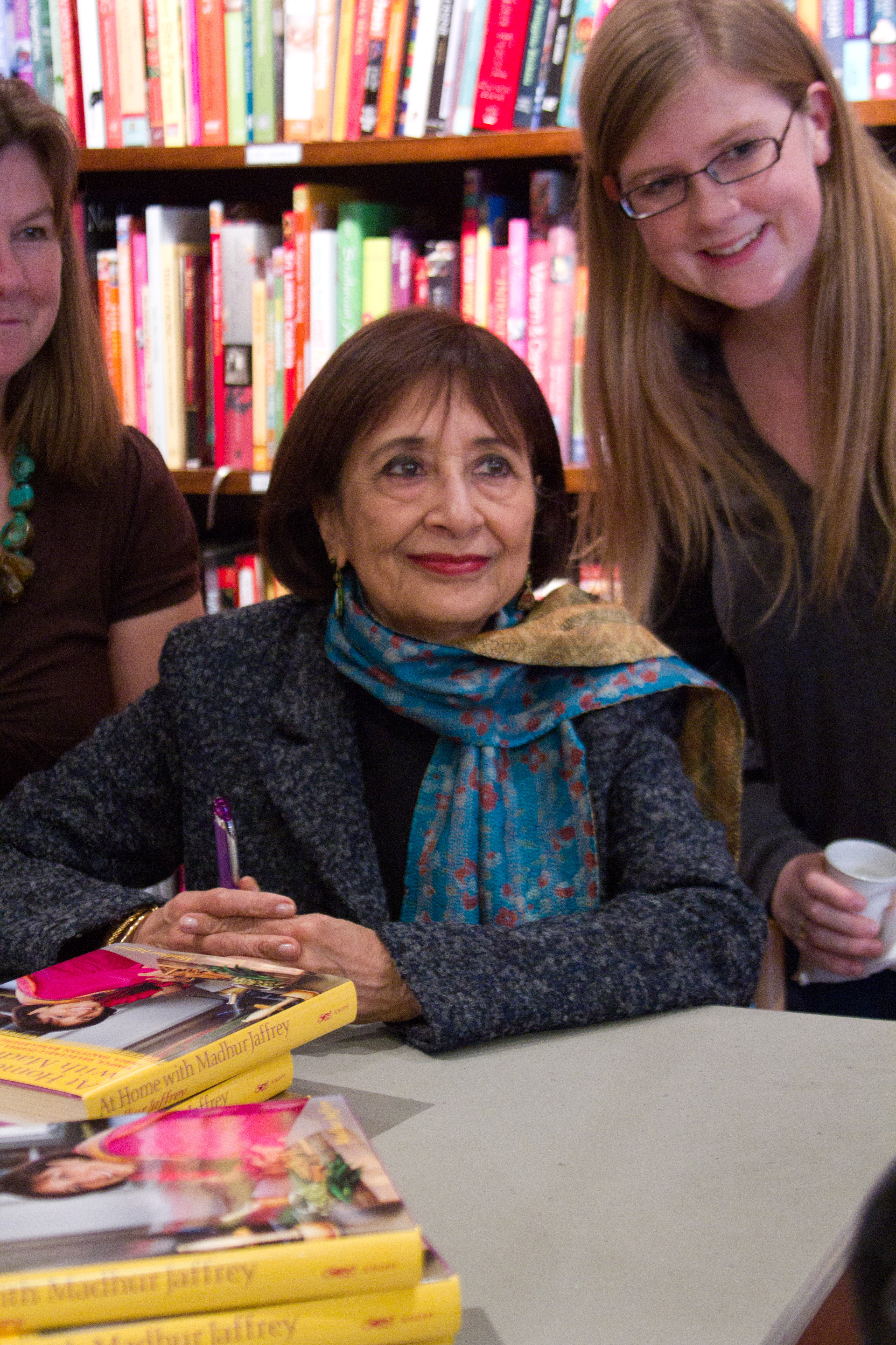 The Indian food writer Madhur Jaffrey at a book signing.